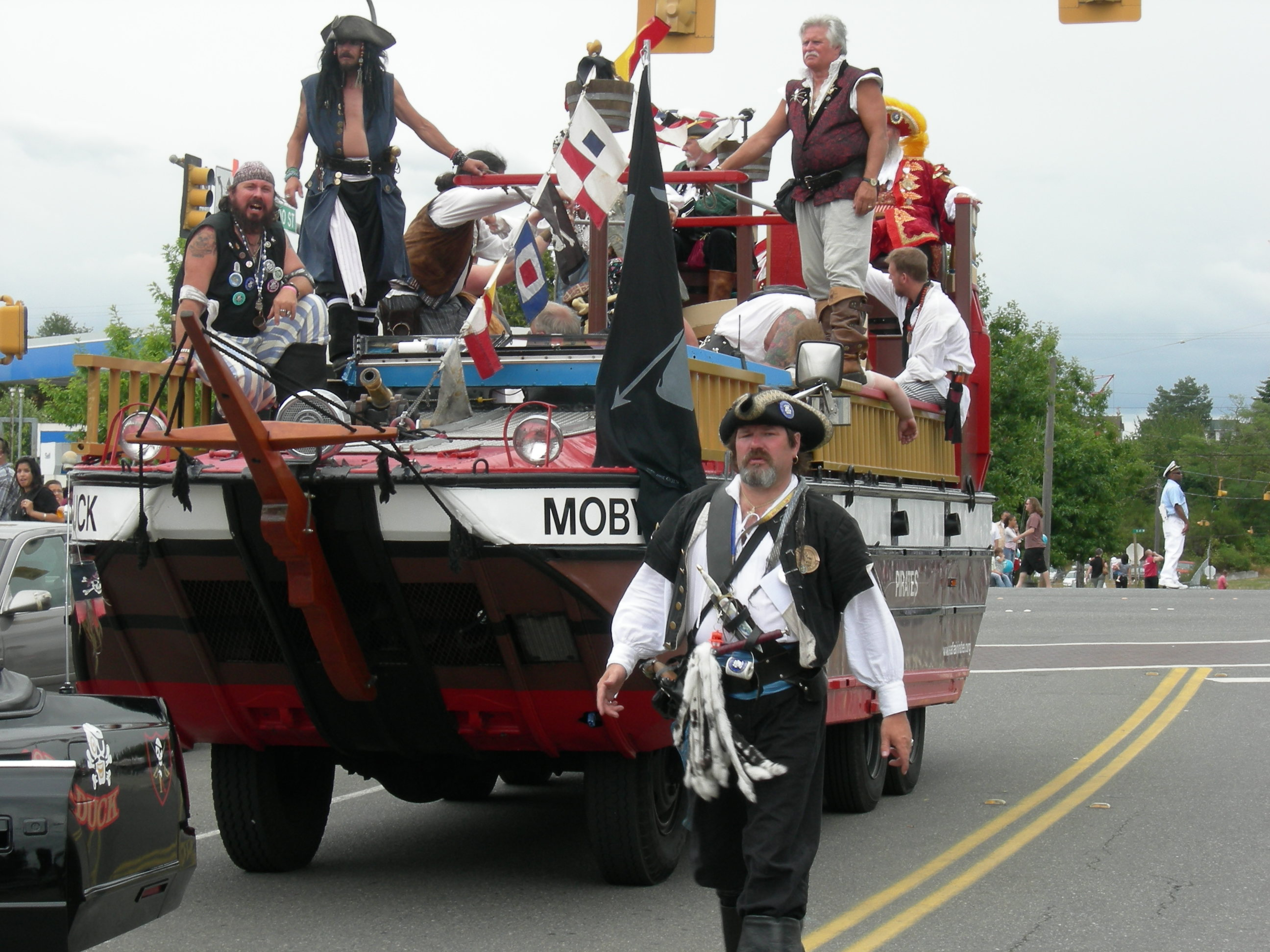 The Seafair Pirates at White Center Jubilee Days, White Center, Washington. Their boat, the Moby Duck, is a converted DUKW: a World War II-era amphibious landing craft. Although downtown White Center is technically just outside of Seattle city limits, the event is part of Seattle's Seafair (a series of annual summer events).